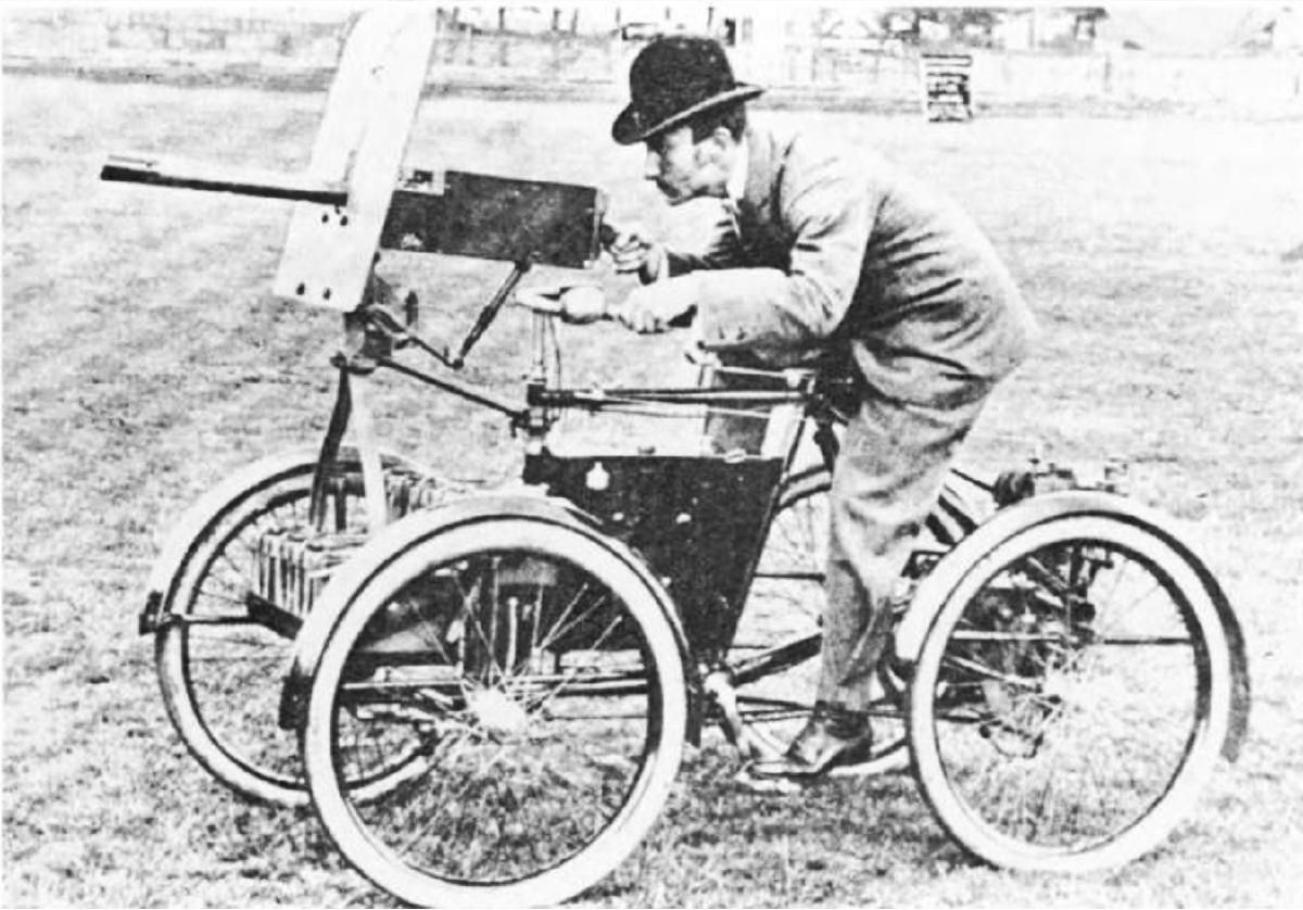 Simms_Motor_Scout_1899. Frederick Simms with his "Motor Scout" at the first public demonstration in 1899